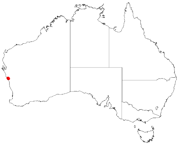 Desmocladus glomeratus Occurrence data downloaded from Australasian Virtual Herbarium on 24 January 2019 using